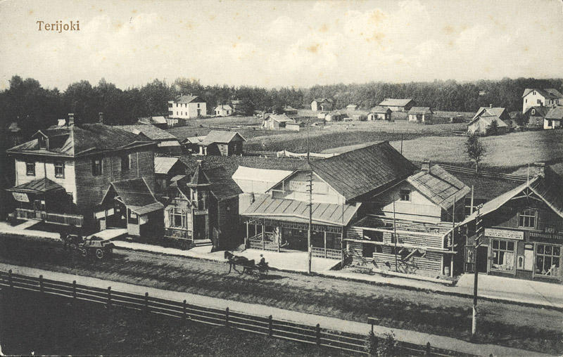 Zelenogorsk (Russia)